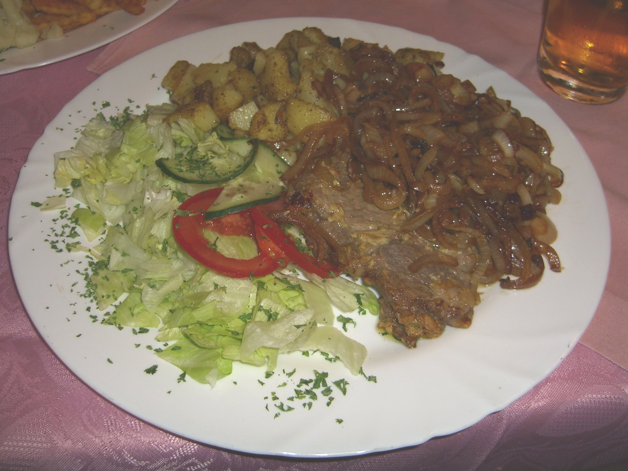 The one and only Thuringian Roast from the pub "Mücke" in Groitzsch ;-)